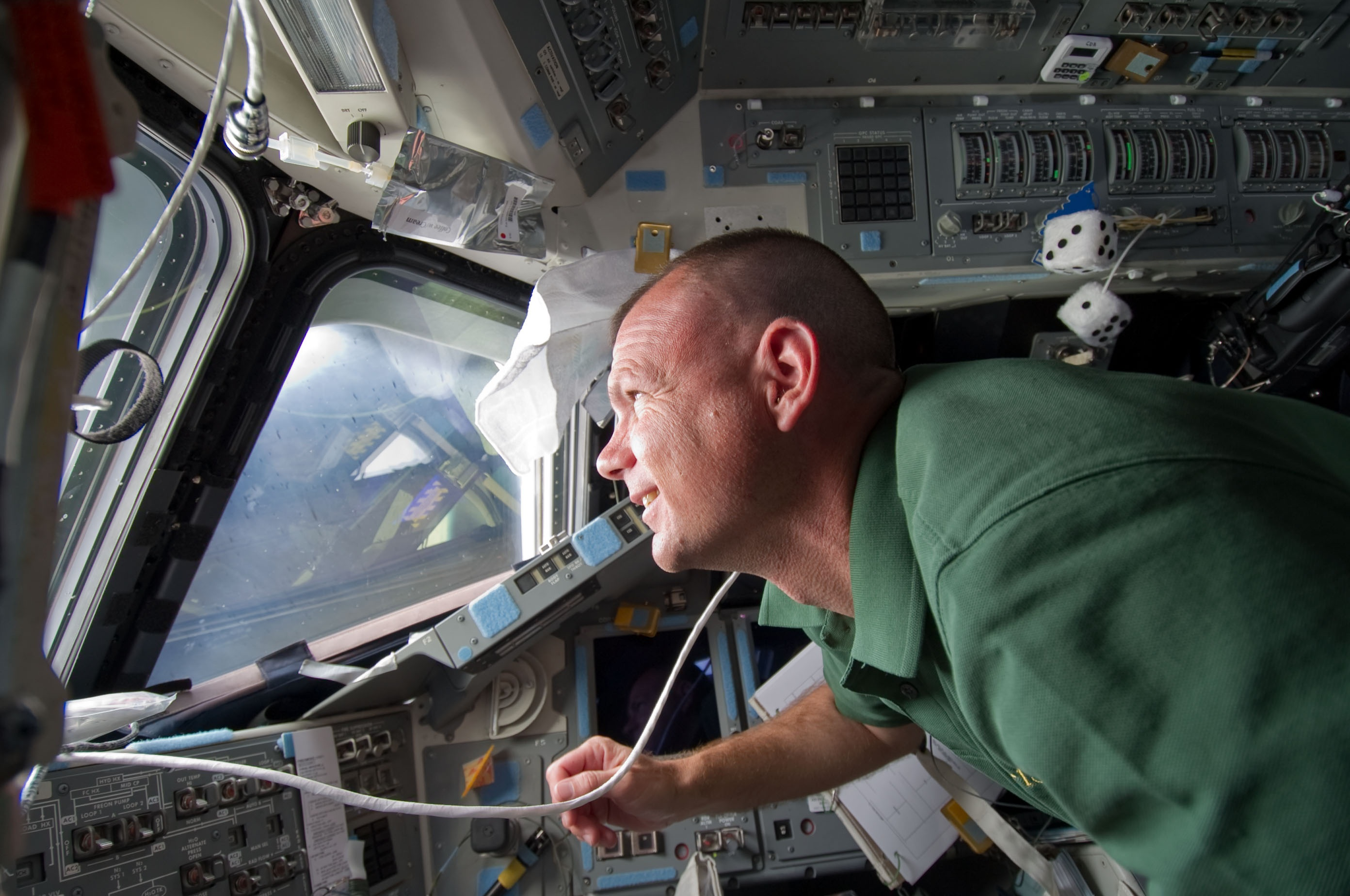 NASA astronaut Tony Antonelli, STS-132 pilot, looks through a window on the flight deck of the Earth-orbiting space shuttle Atlantis during flight day two activities.